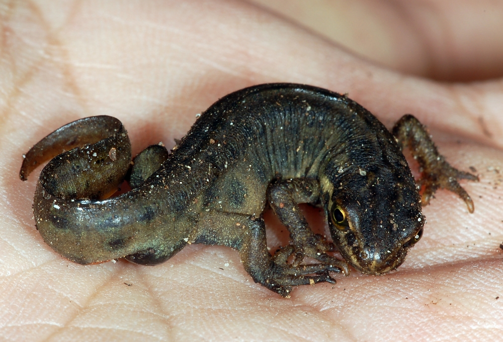 Smooth Newt, Triturus vulgaris, Schwanheimer Dune, Frankfurt/Main, Germany